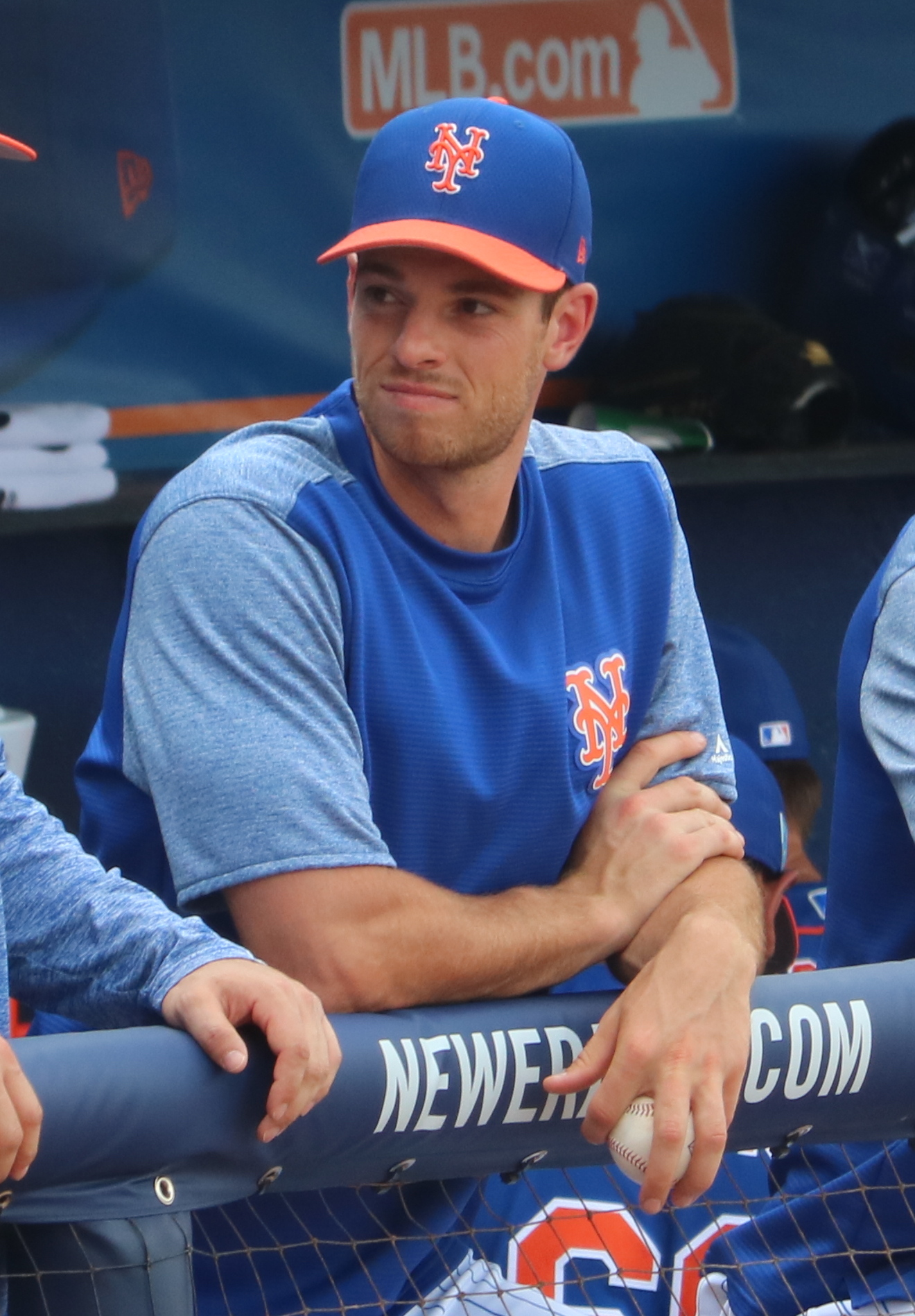 This is a cropped version of this photo showing New York Mets pitcher Steven Matz.